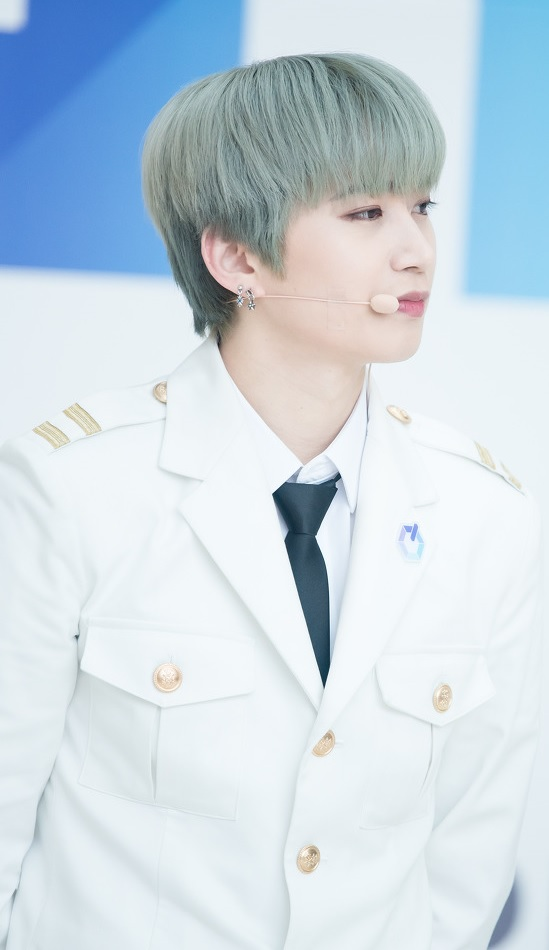 180211 더유닛 유닛B